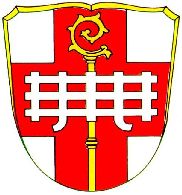 Coat of Arms of Aura an der Saale